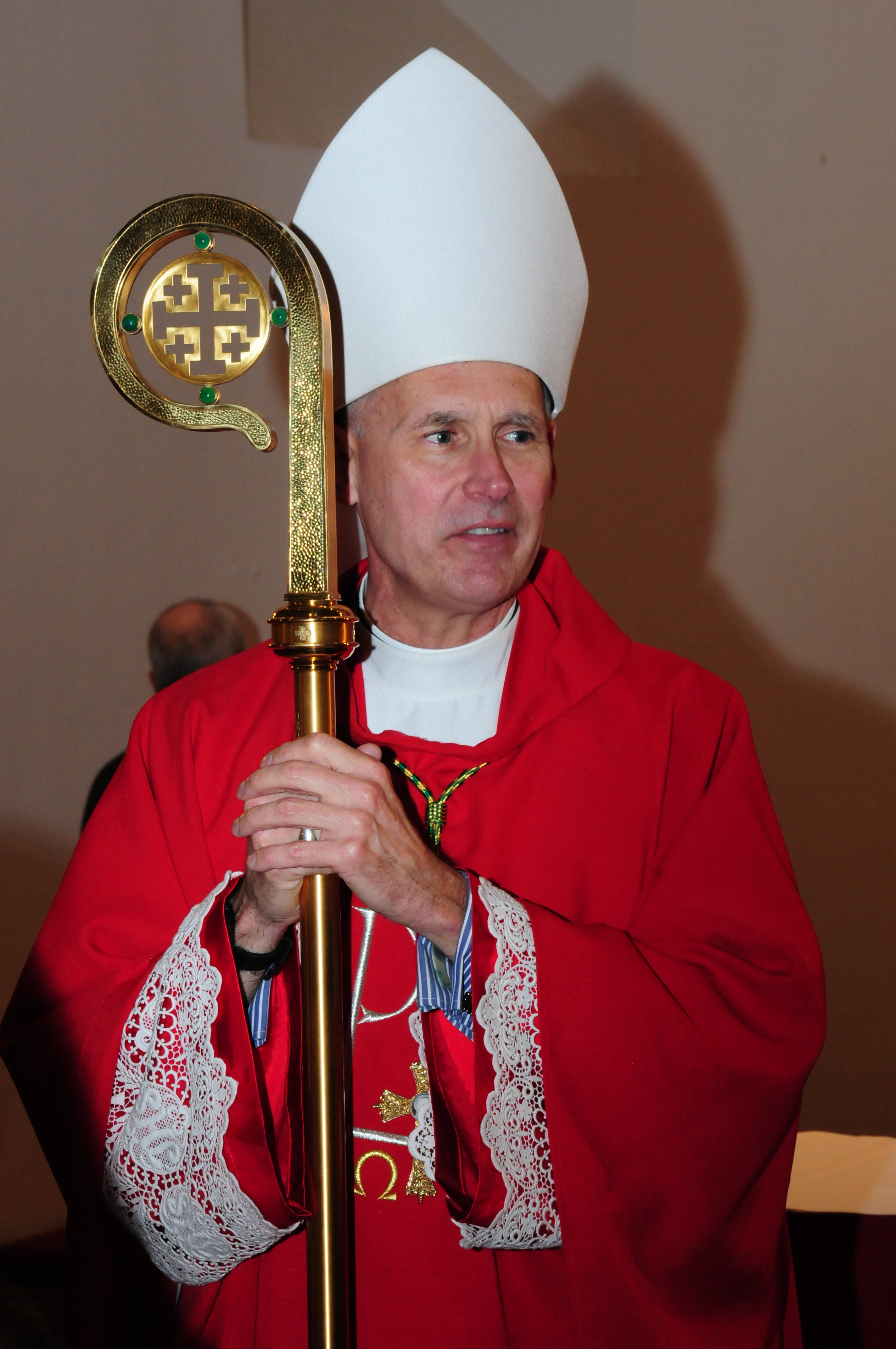 Roman Catholic Bishop F. Richard Spencer, shown here prior to a Confirmation celebration in Heidelberg recently, was the guest speaker at the U.S. Army Garrison Baden-Wuerttemberg prayer breakfast on Patrick Henry Village in Heidelberg, Germany